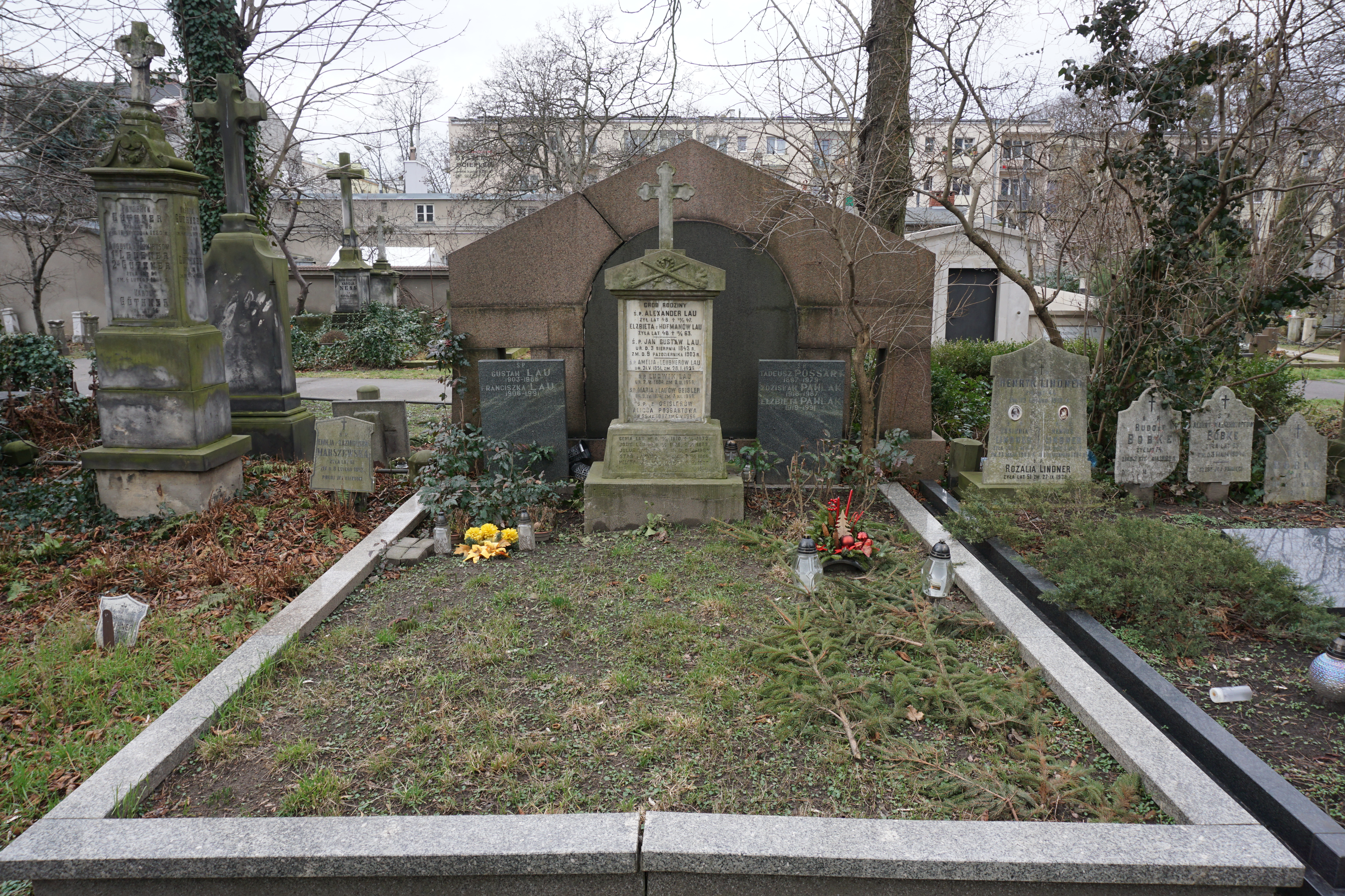 The grave of Tadeusz Possart at the Evangelical-Augsburg Cemetery in Warsaw (avenue 8, grave 44)